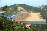 Rodiles Beach at Villaviciosa, Principado de Asturias, Spain